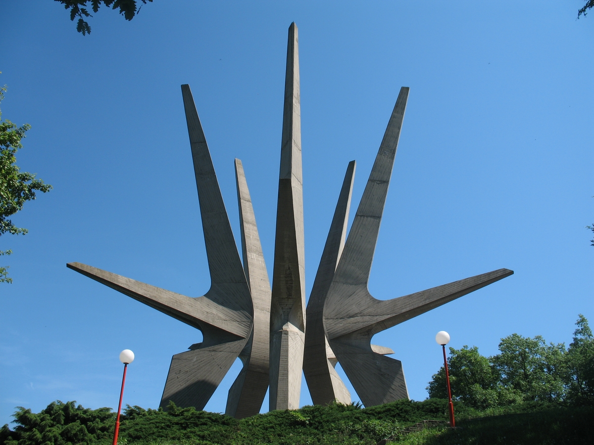 Monument to Kosmaj partisan division from WWII on top of Kosmaj mountain, near Belgrade, Serbia.